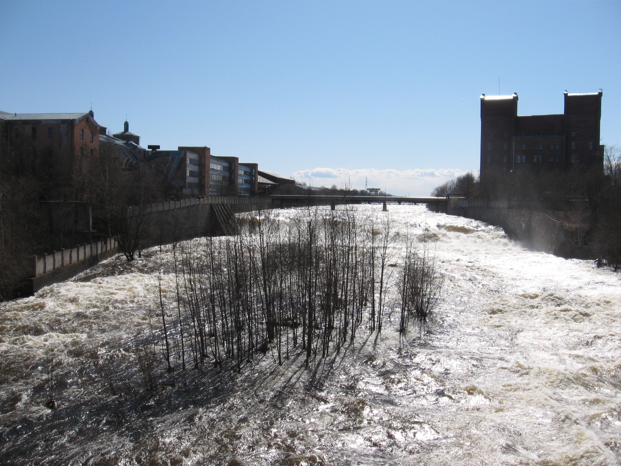 Narva Waterfall (west part)